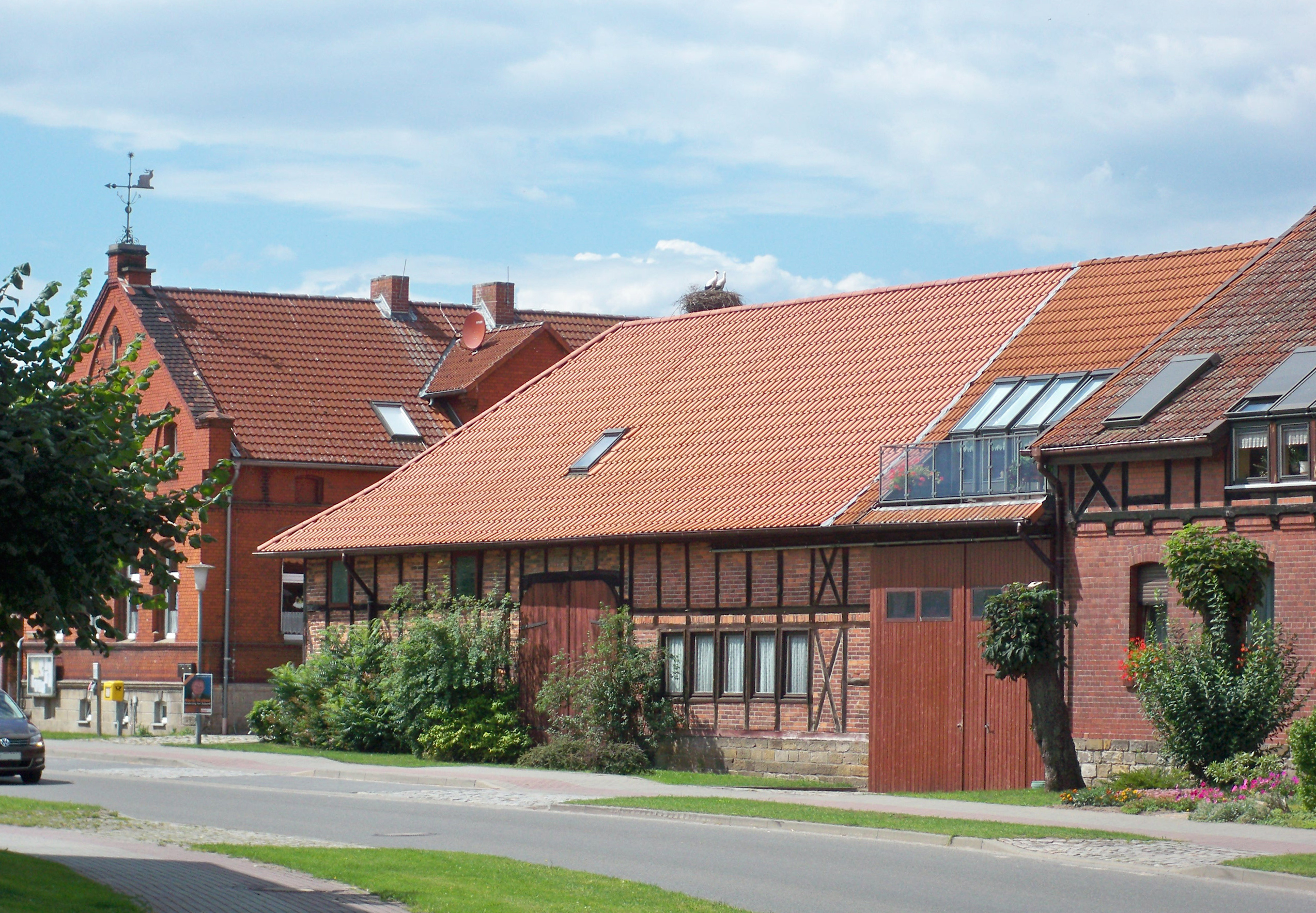 Breitenrode, Saxony-Anhalt, Village Centre with kindergarten and breeding white storks